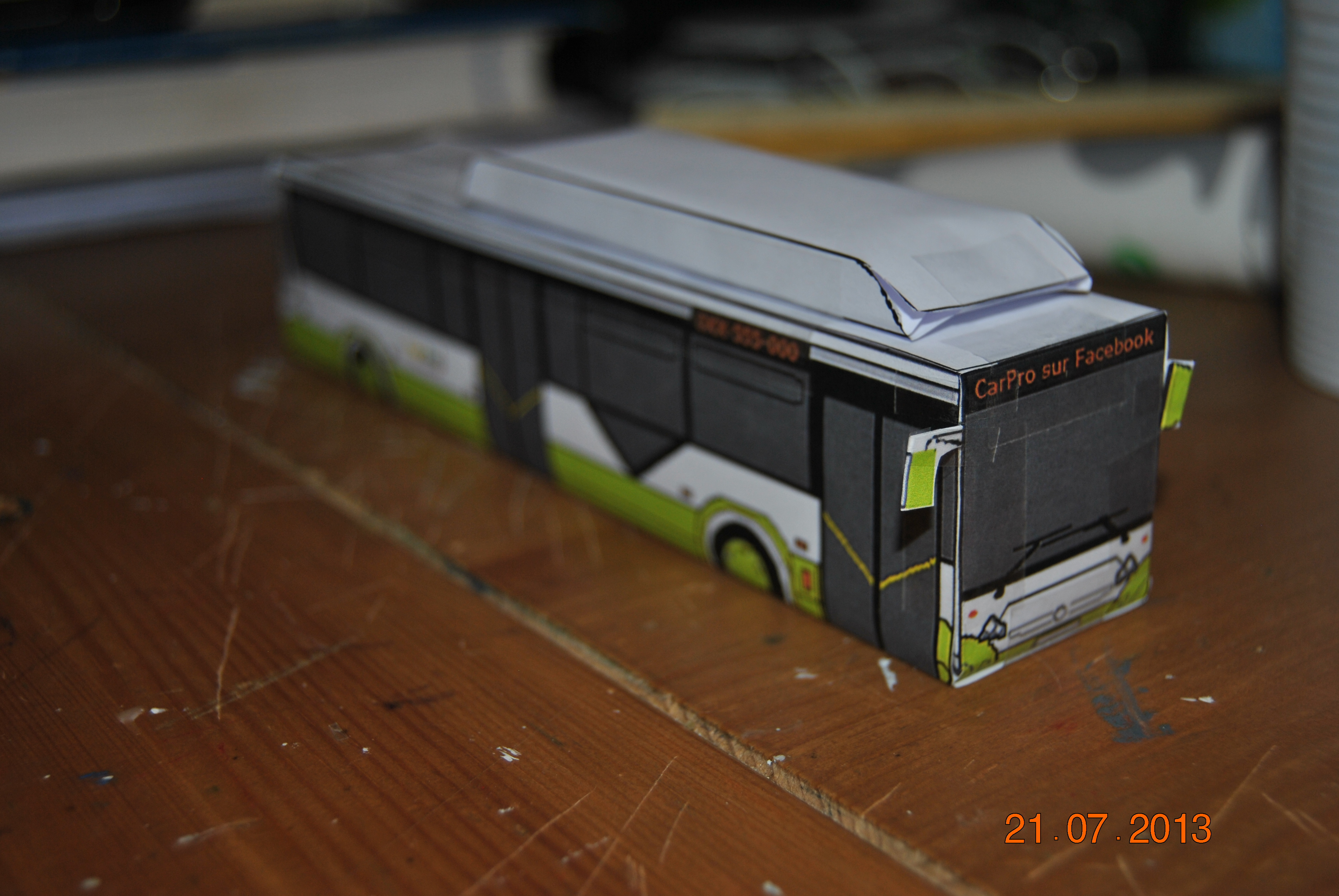 CarPro Buses